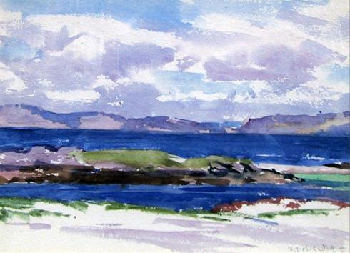 Francis Cadell: Iona; watercolor, 7 x 10 inches